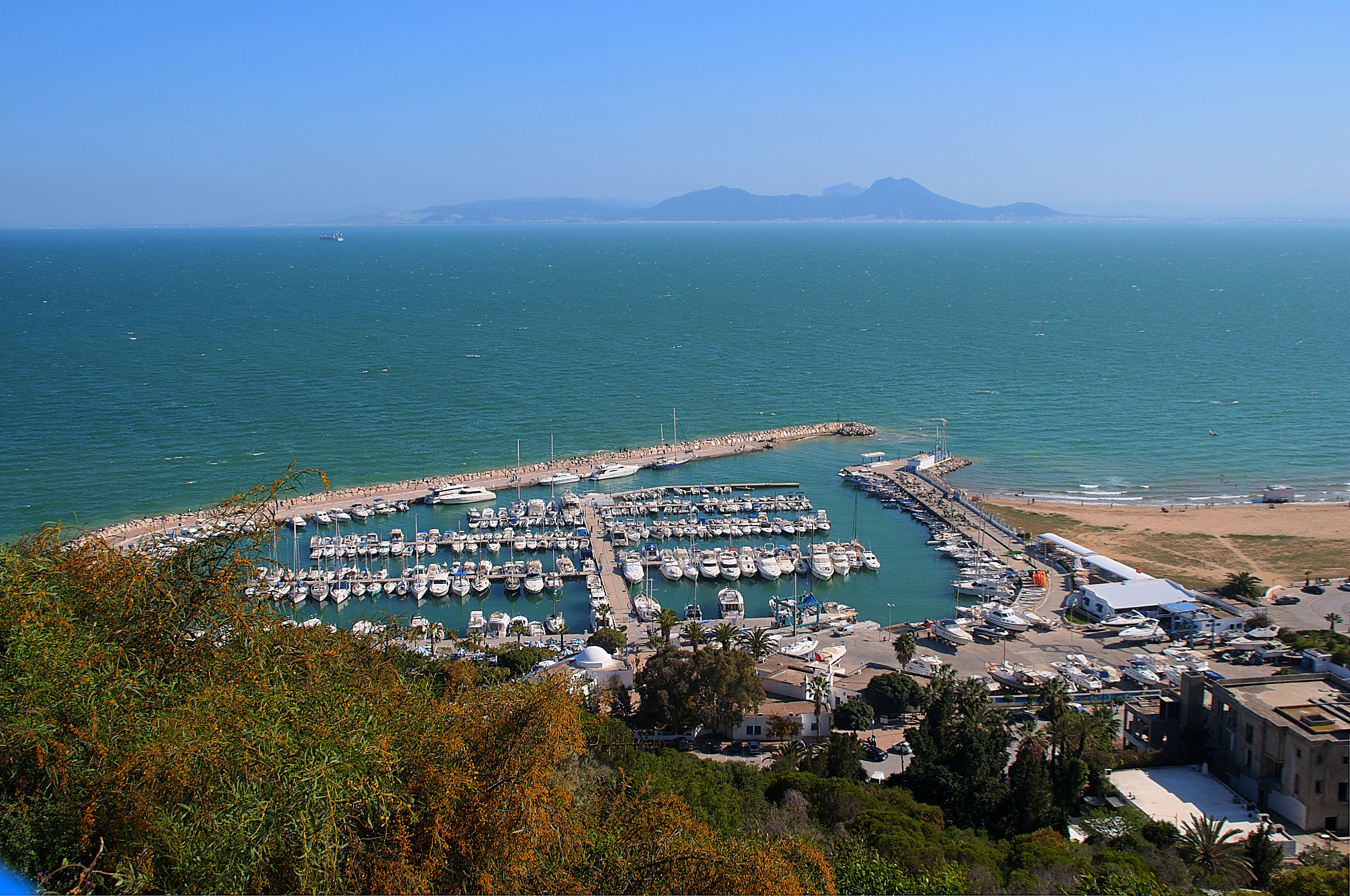 This is port of Sidi Bou Said, in Tunis, Tunisia.